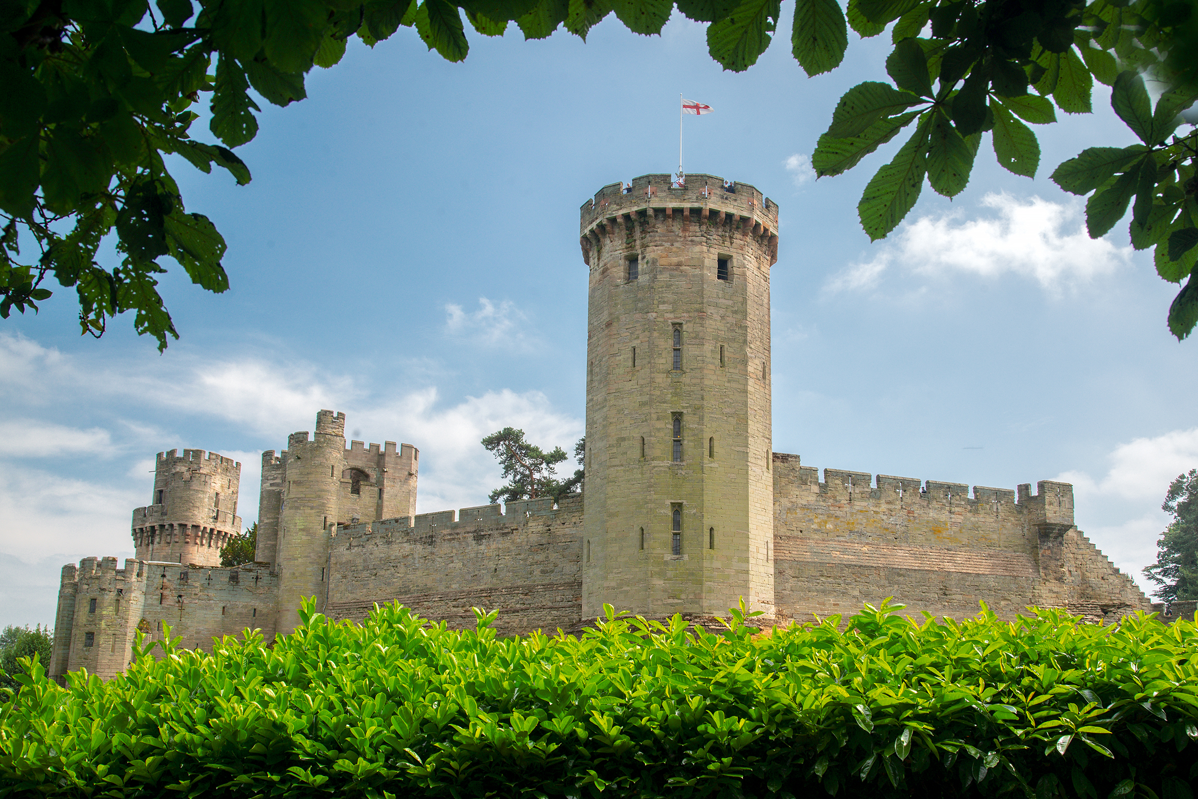 One of the first views of the castles for tourists entering the grounds